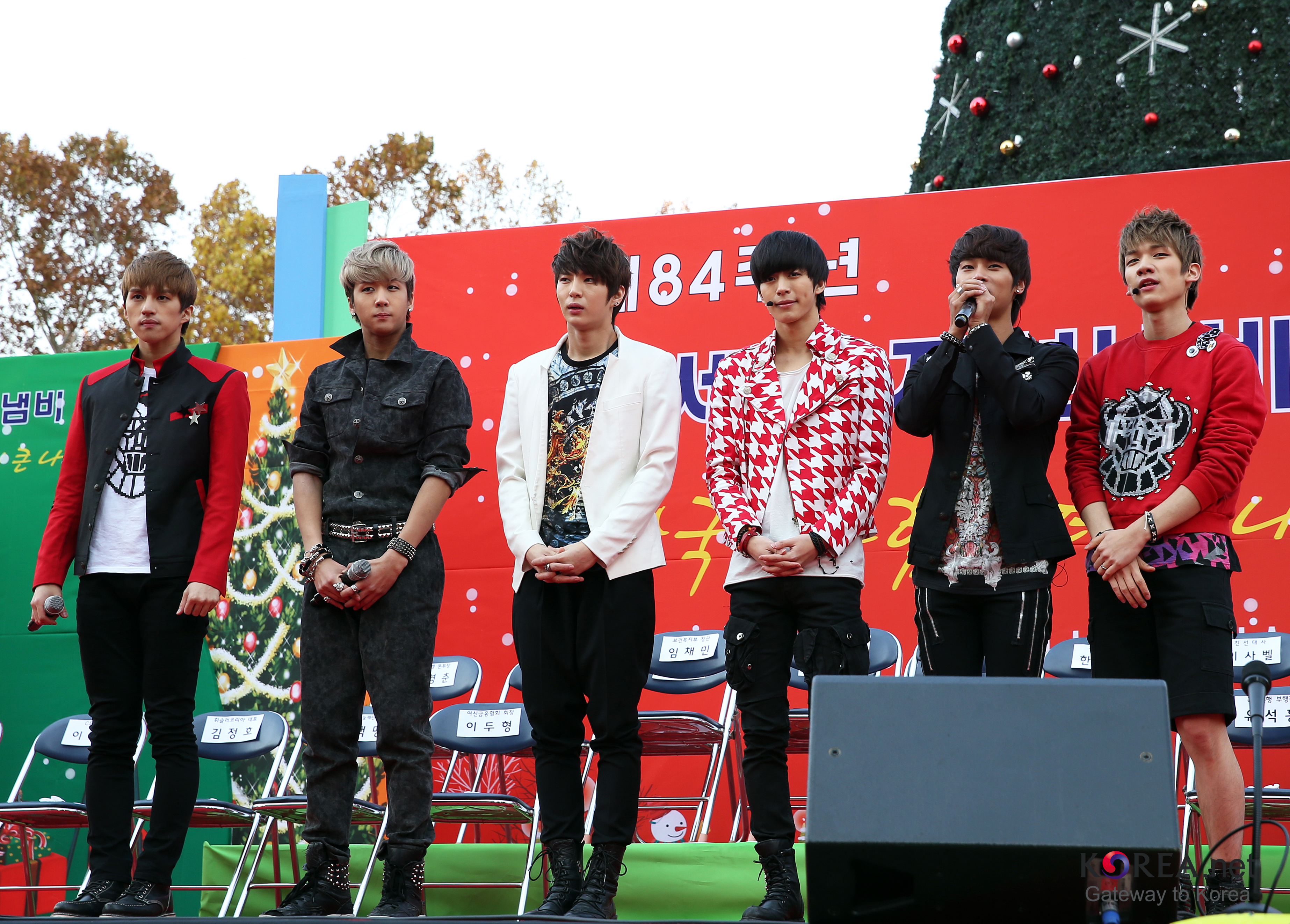 The Salvation Army Kettle Appeal Opening Ceremony Special Performance by VIXX Seoul Plaza, Seoul 2012.11.30 Ministry of Culture, Sports, and Tourism Korean Culture and Information Service Jeon Han 제84주년 구세군 자선냄비 시종식 빅스(VIXX) 축하공연 문화체육관광부 해외문화홍보원 코리아넷 전한